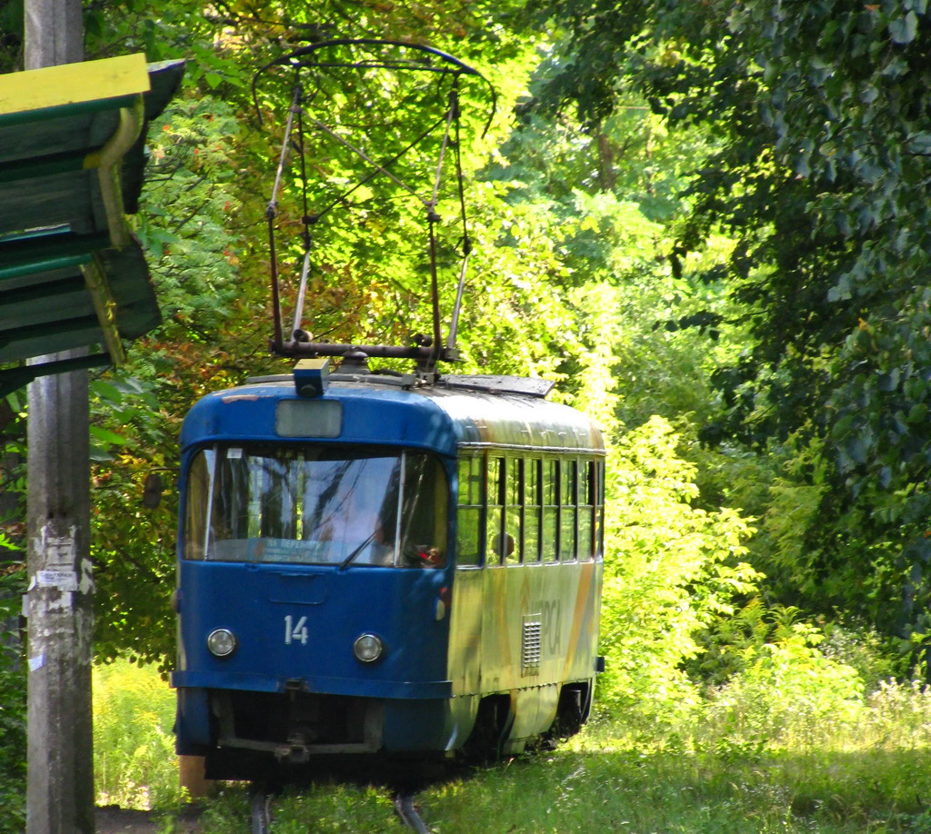 Tatra T4SU in Zhitomir, Ukraine